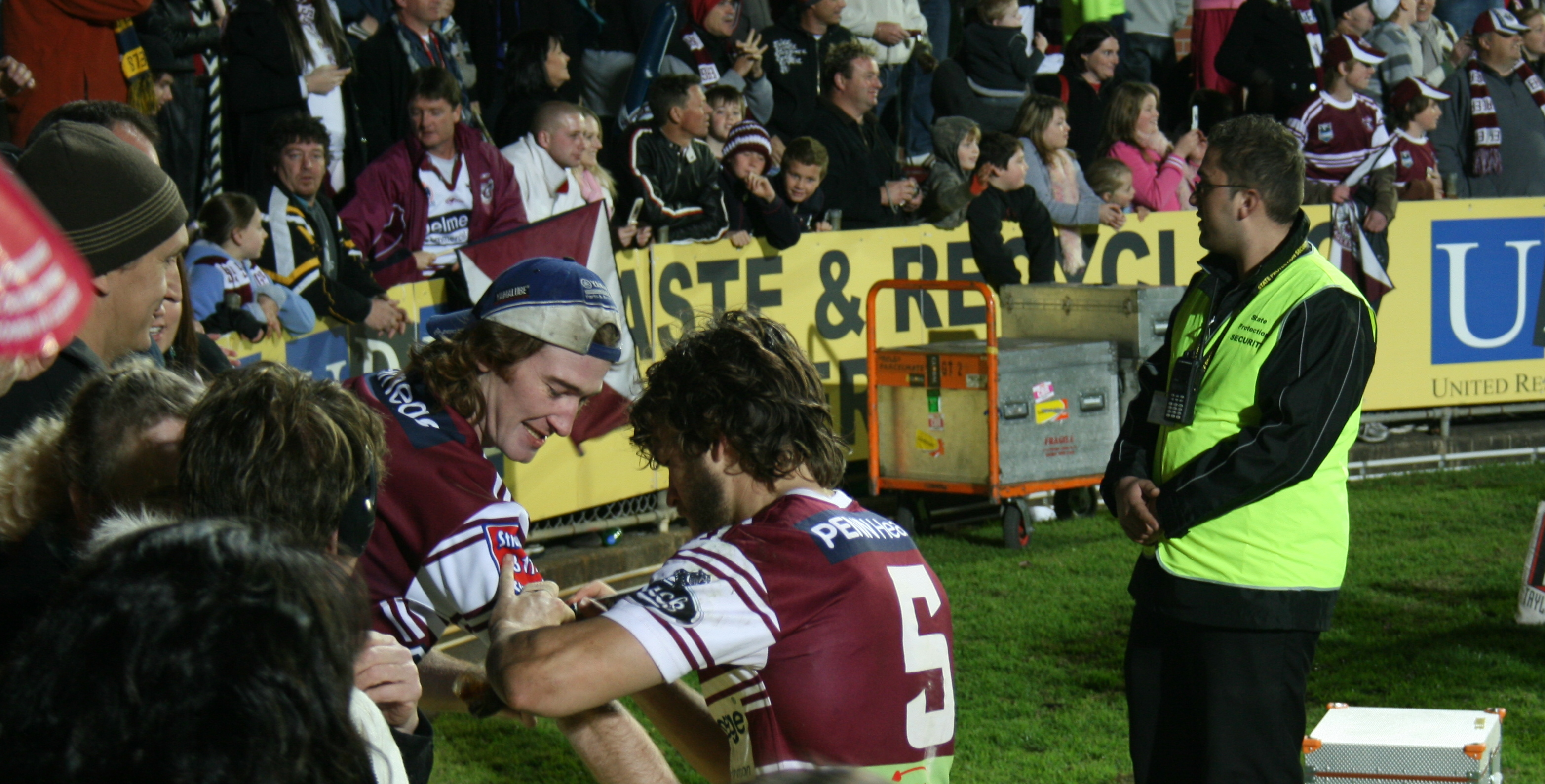 Pic of footy player autographing an arm.